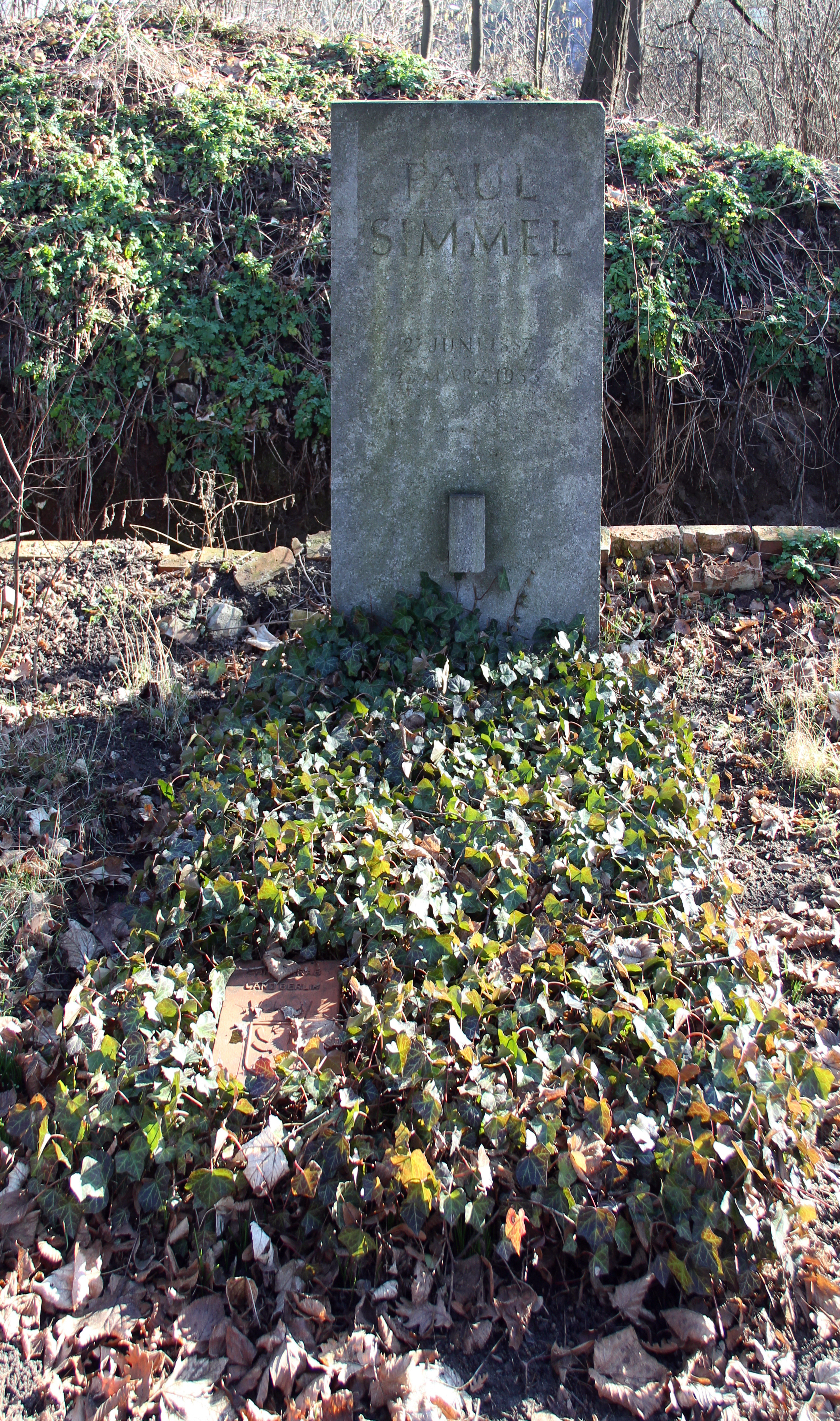 Grave of honor, Paul Simmel, Werdauer Weg 5, Berlin-Schöneberg, Germany